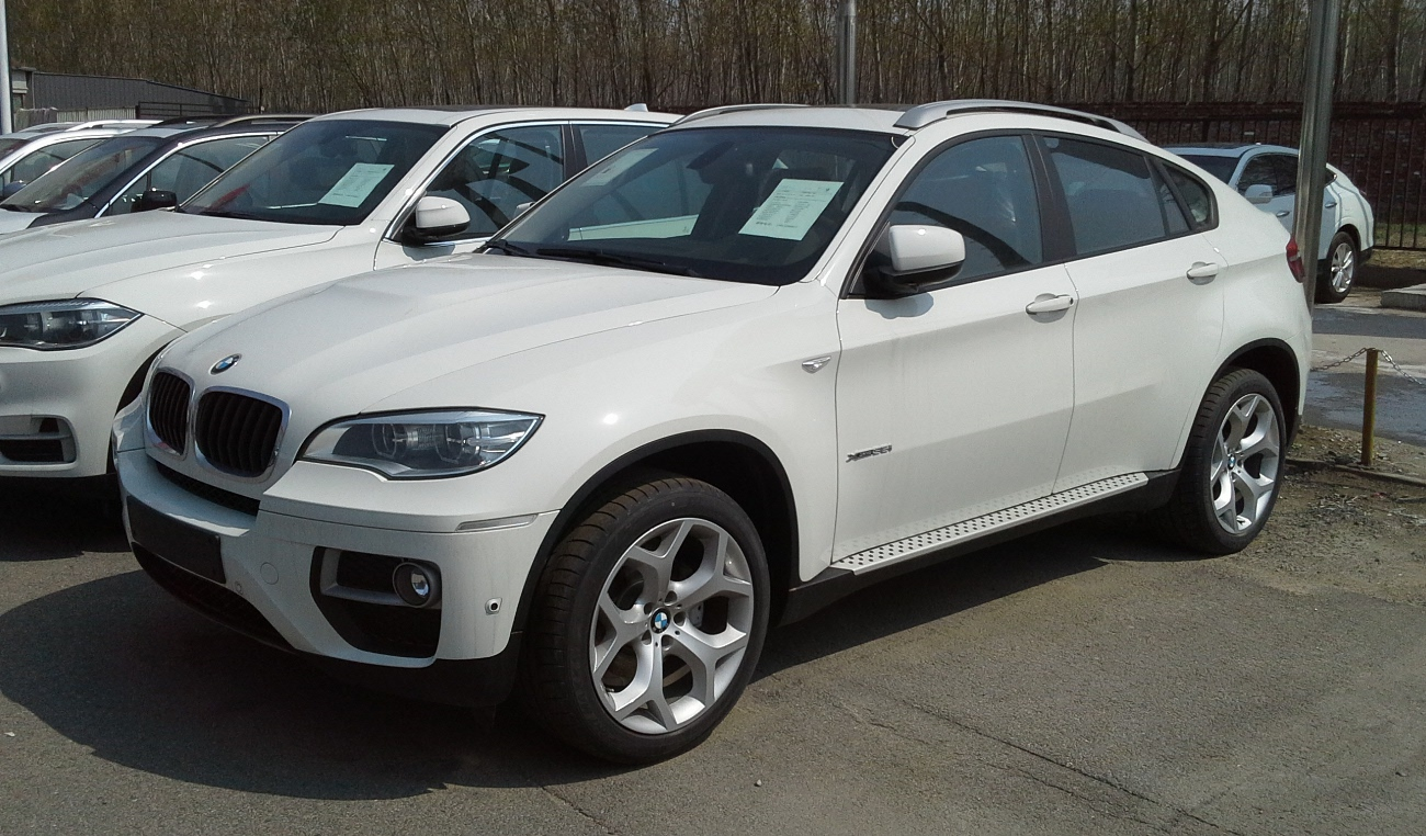 BMW X6 E71 facelift photographed in Beijing, China.